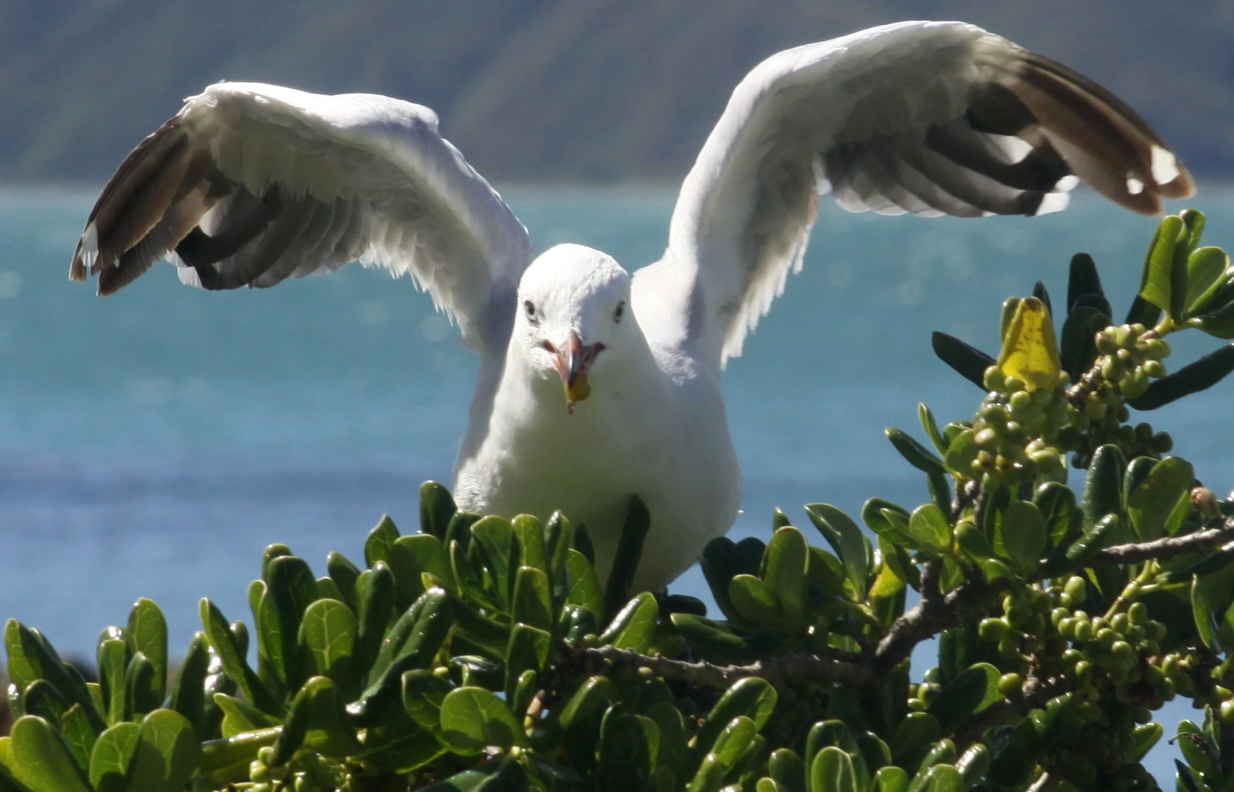 Red billed gull eating Taupata (Coprosma repens) berries. A number of red billed gulls landed on the same tree and picked off berries. Scorching Bay, Wellington, New Zealand.